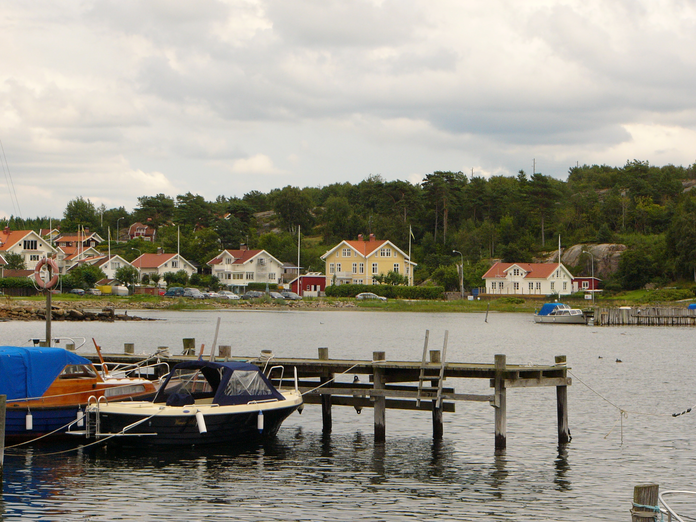 Central Kämpersvik.